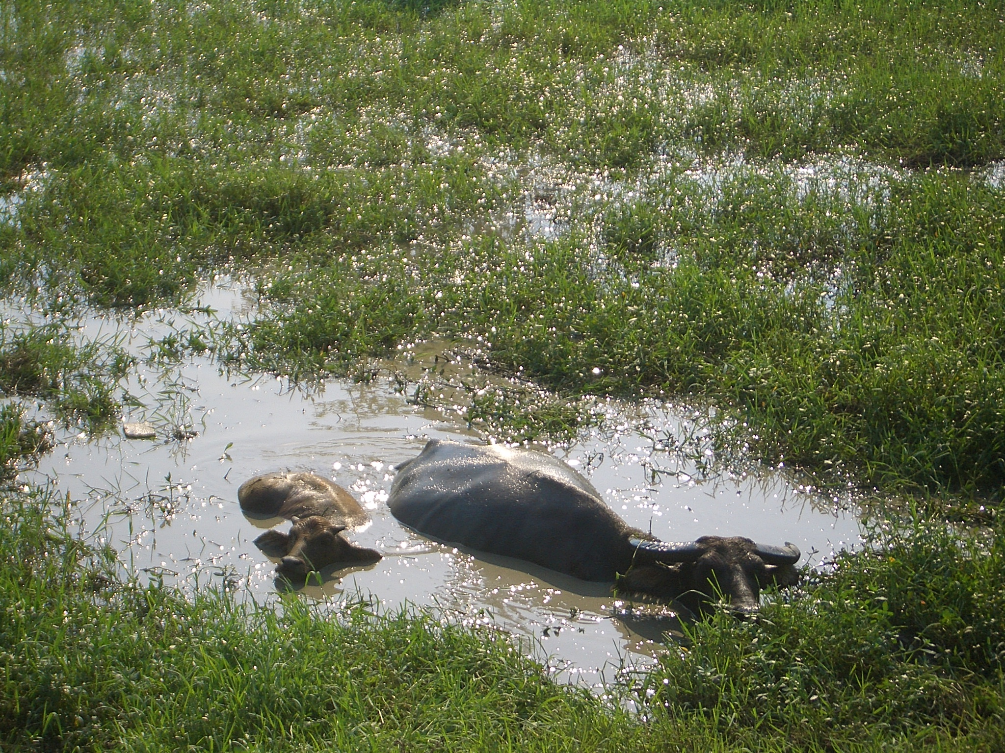 A water buffalo with a calf enjoying some water by the side of the road. Southern Jiangxia District, City of Wuhan